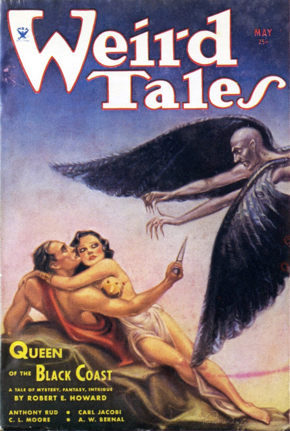 Cover of Weird Tales (May 1934): The feature story is Robert E. Howard's "Queen of the Black Coast".